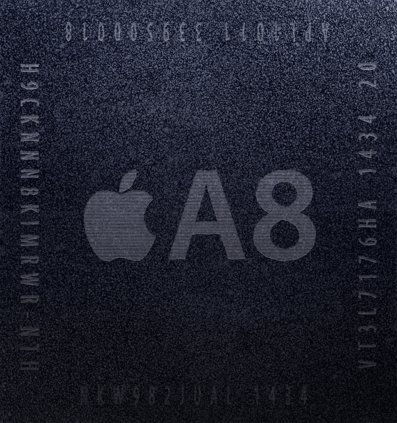 Apple A8 system-on-a-chip. This is the one in the iPhone 6.